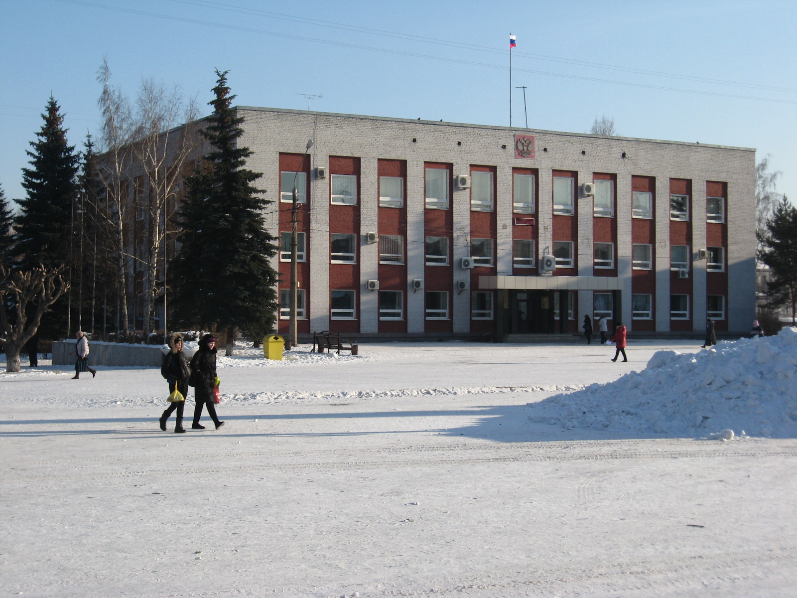 City Hall Belovo Kemerovo